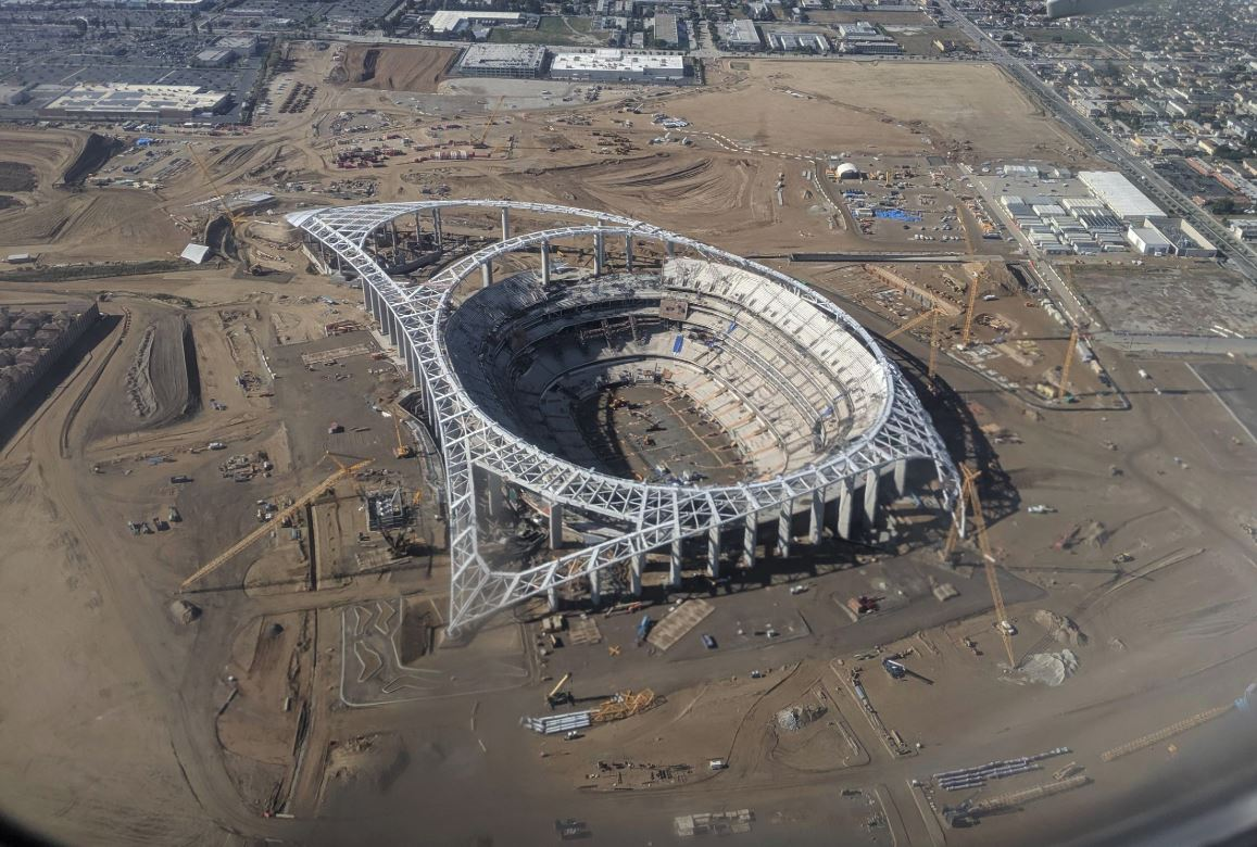 SoFi Stadium under construction in June 2019